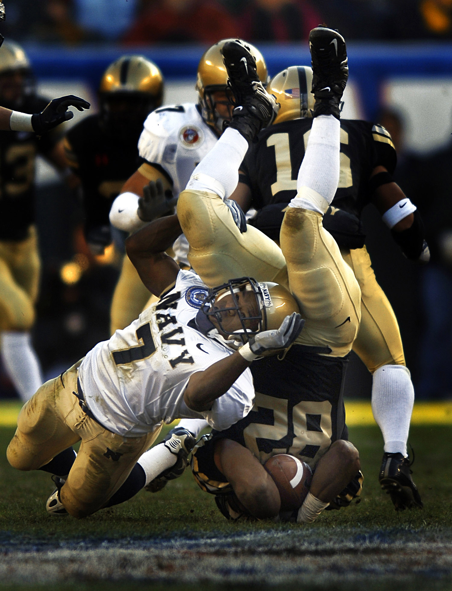 Philadelphia, Pa. (Dec. 3, 2005) - Navy slot back Reggie Campbell (7) of Sanford, Fla., tackles Army Running Back Scott Wesley (82) during a punt return during the 106th Army vs. Navy Football game held for the third consecutive year at Lincoln Financial Field. The Navy defeated the Black Knights of Army 42-23. The Mids have now won the past four Army-Navy battles bringing the all-time series to 50-49-7. The Navy (7-4) has accepted an invitation to play in the Poinsettia Bowl in San Diego on Dec. 22. U.S. Navy photo by Photographer’s Mate 2nd Class Jayme Pastoric (RELEASED)